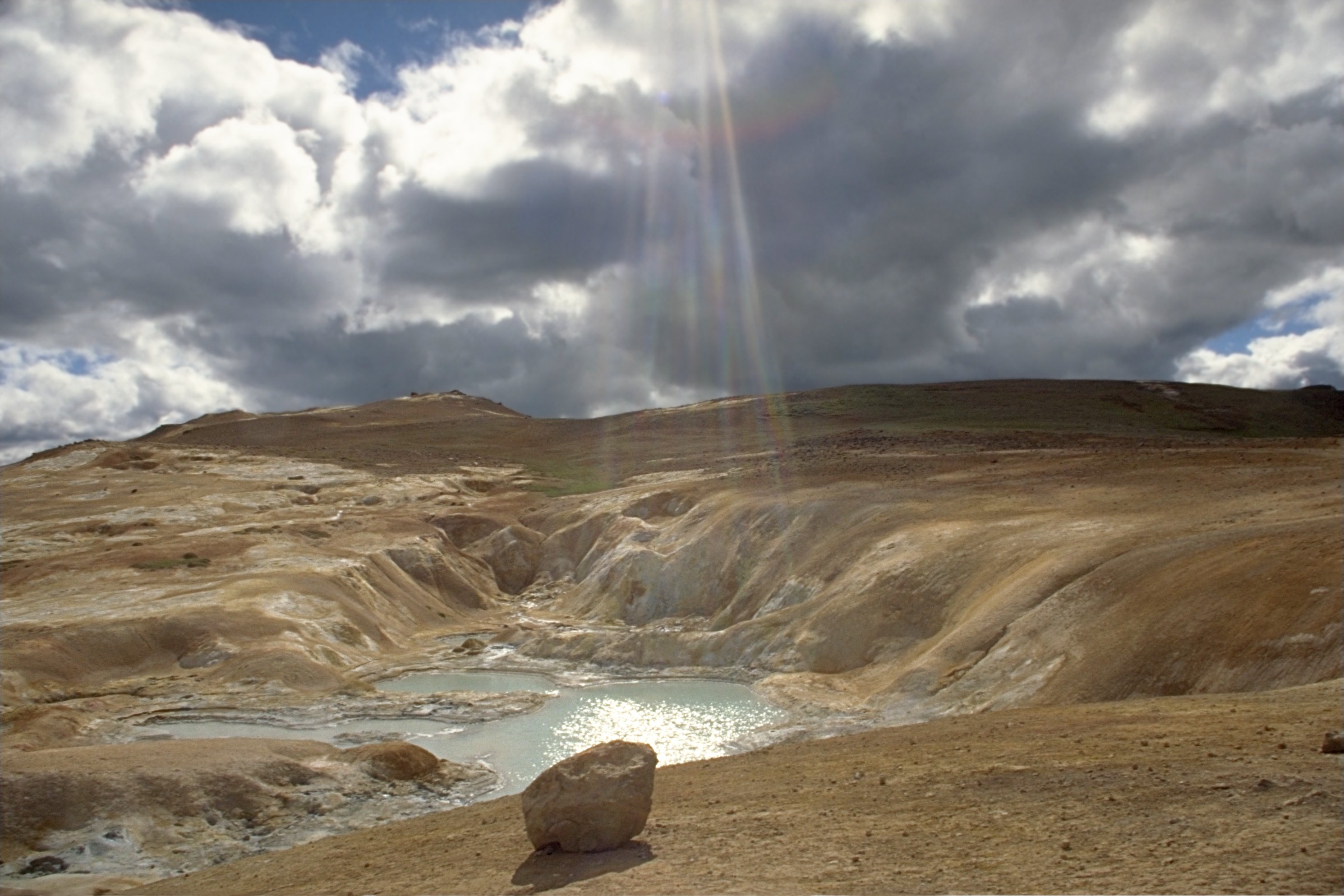 Hot spring at Leirhnjúkur, Iceland